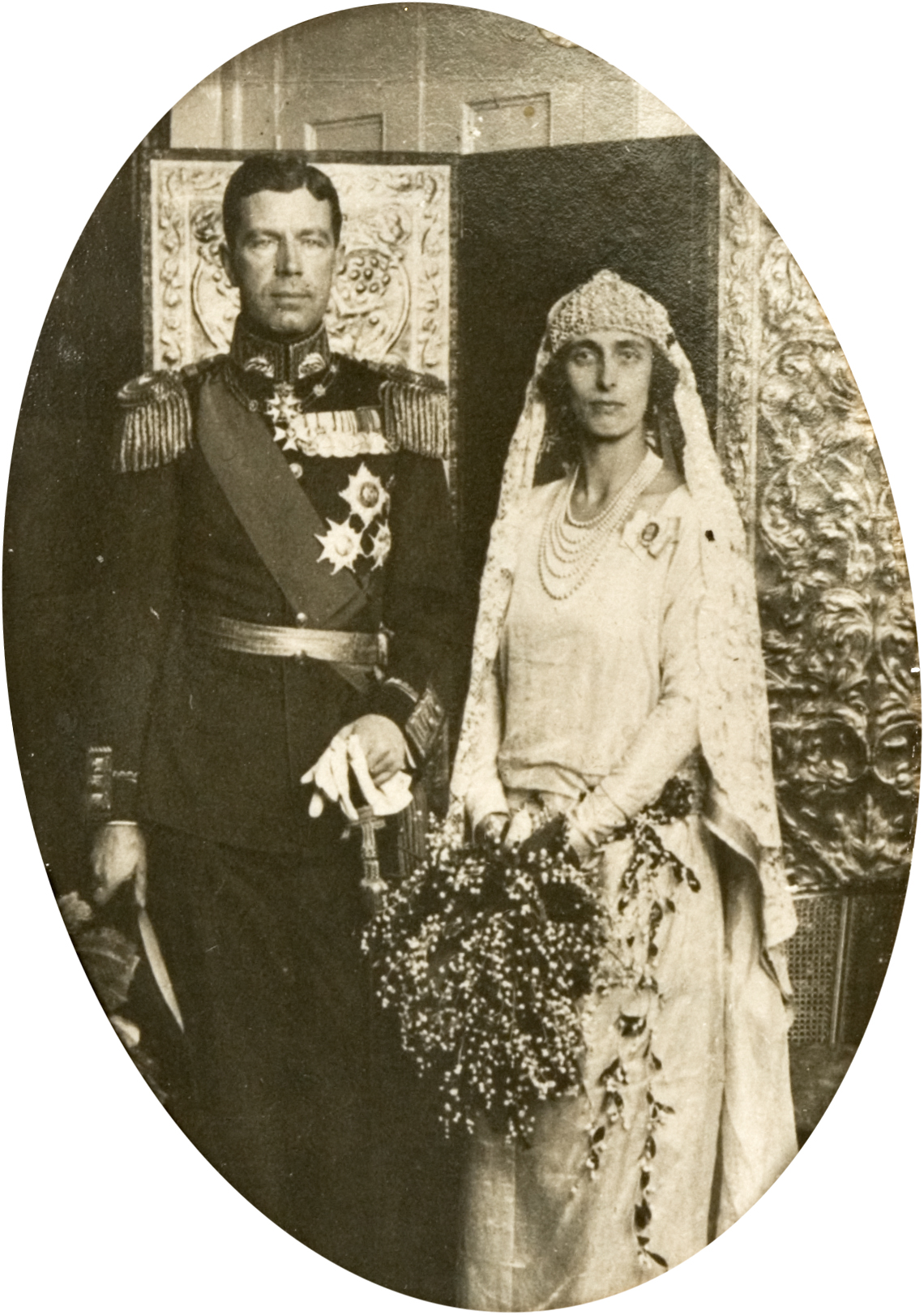 The wedding of Crown Prince Gustaf Adolf of Sweden and Lady Louise Mountbatten November 3, 1923.